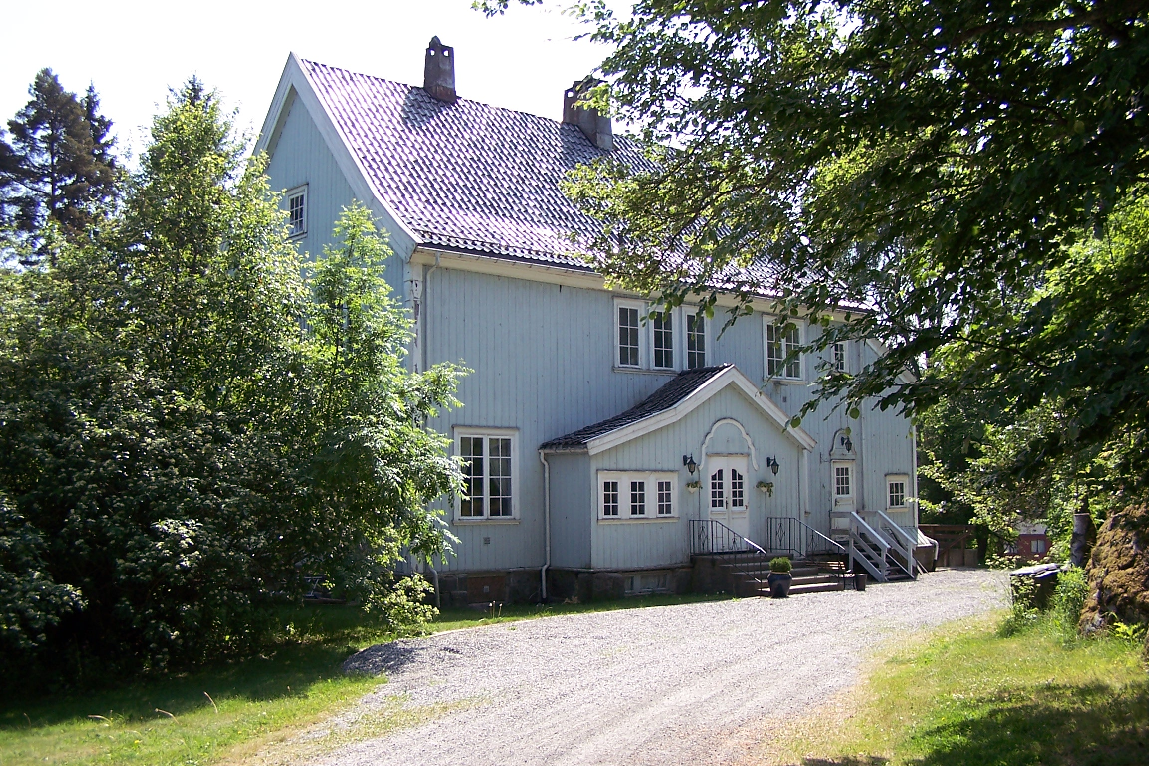 Hølen: Elverhøy, a building owned by the municipality and rented by the local community for a symbolic yearly sum. Built 1914.